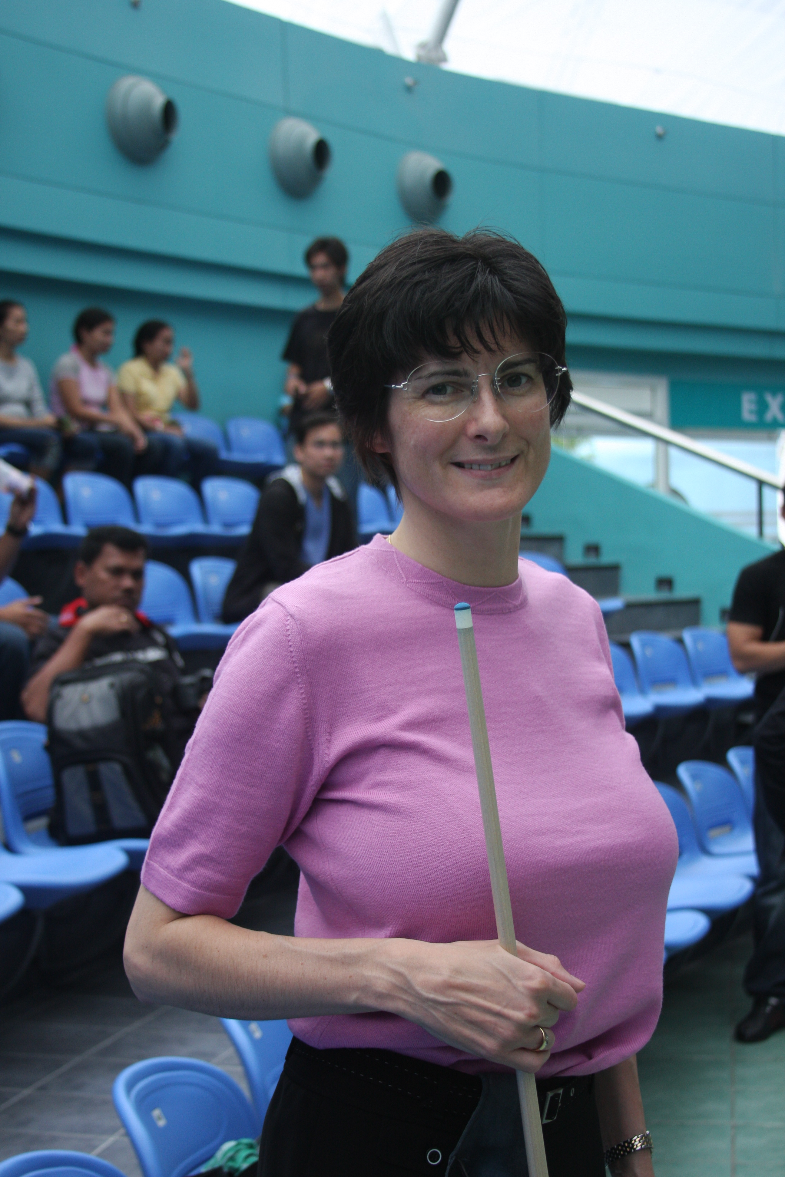 The famous pool and snooker player Karen Corr.